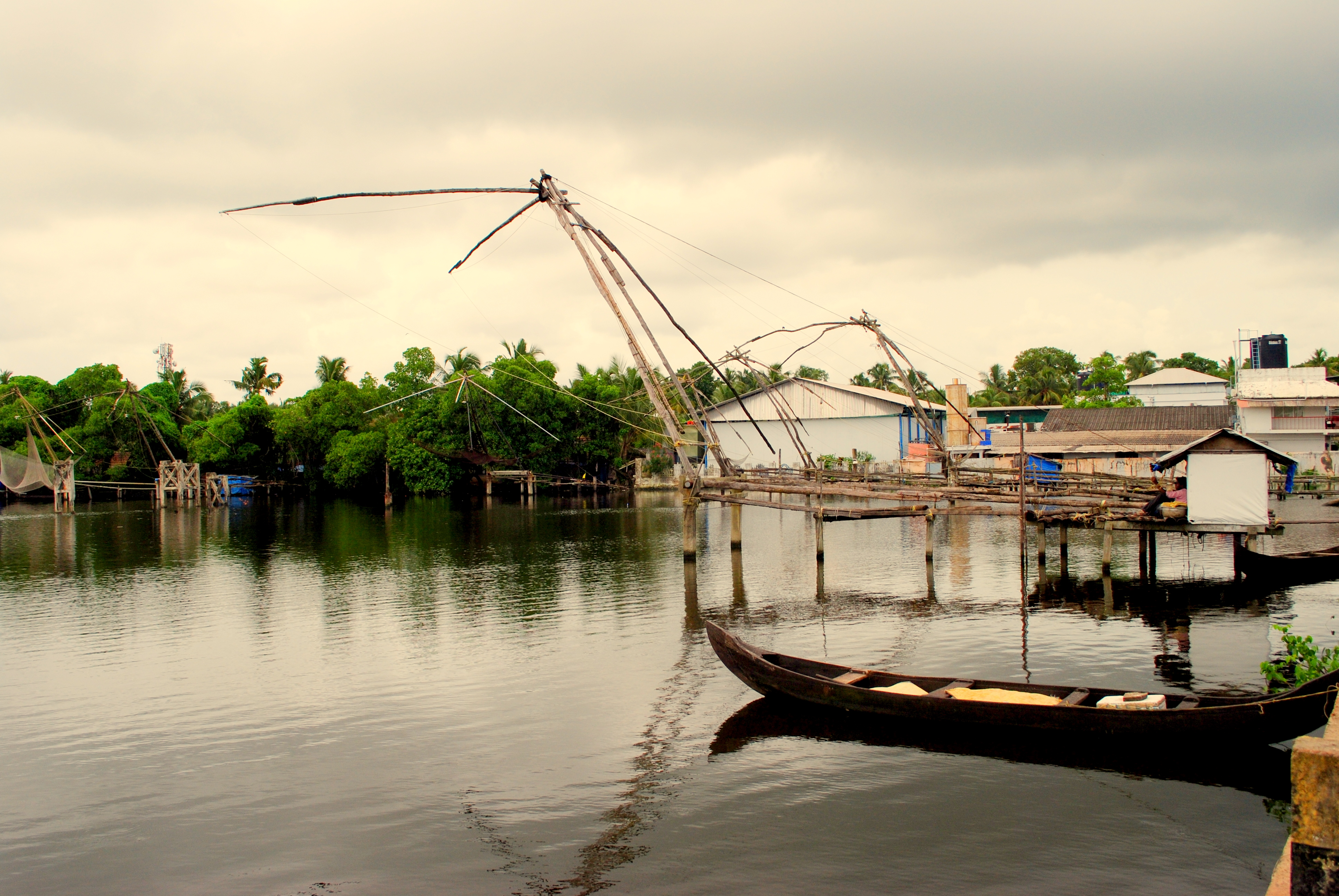 taken taken from the Palluruthy - Kalathara bridge. connecting Palluruthy - Nambiapuram Road to Kalathara